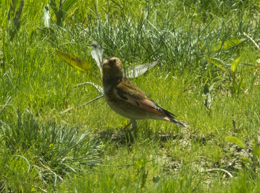 Crimson-winged Finch - Almaty - Kazakistan_S4E2283